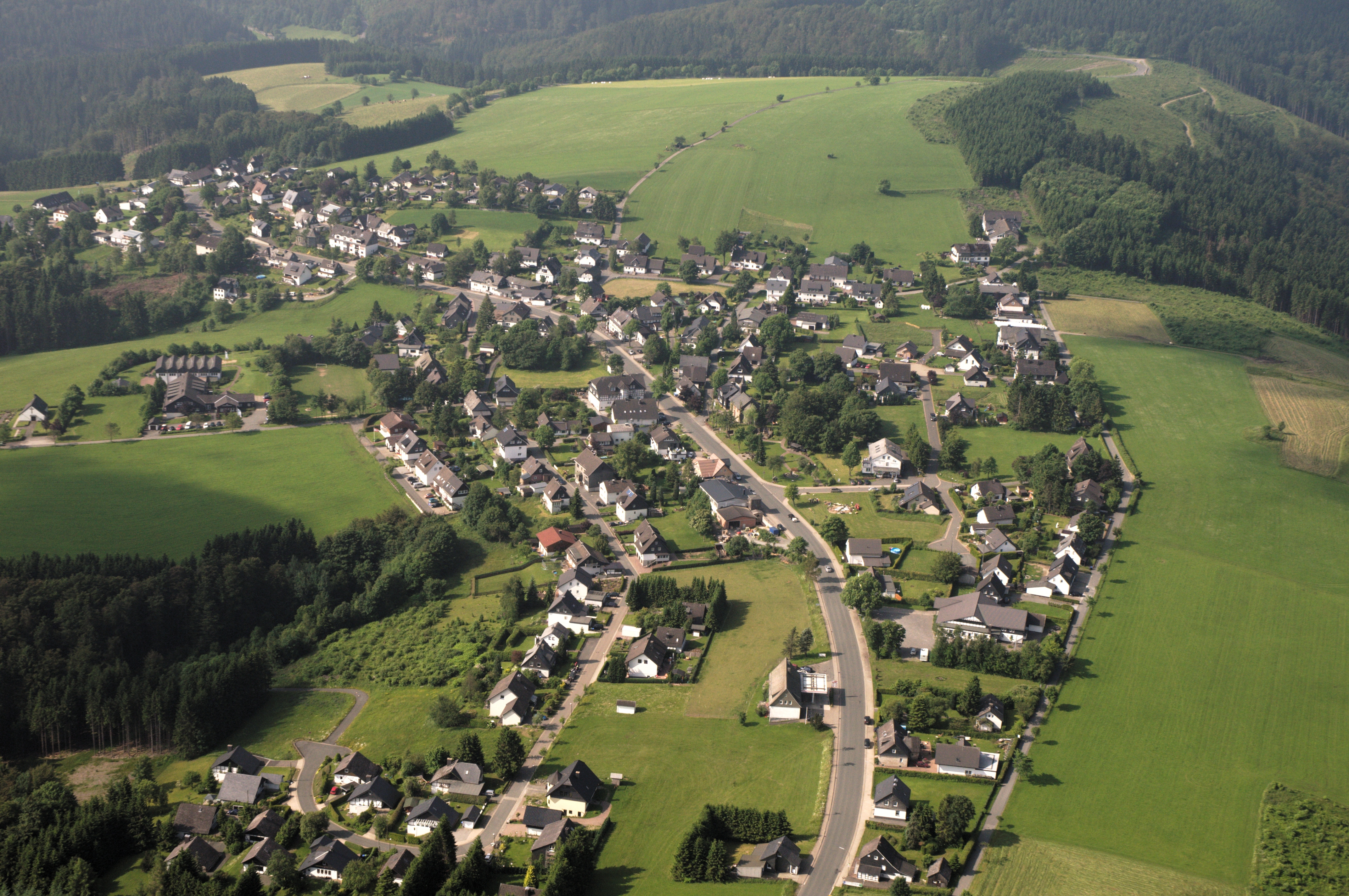 Fotoflug Sauerland-Ost, Langewiese, Blick Richtung Südwesten The making of this document was supported by the Community-Budget of Wikimedia Germany.